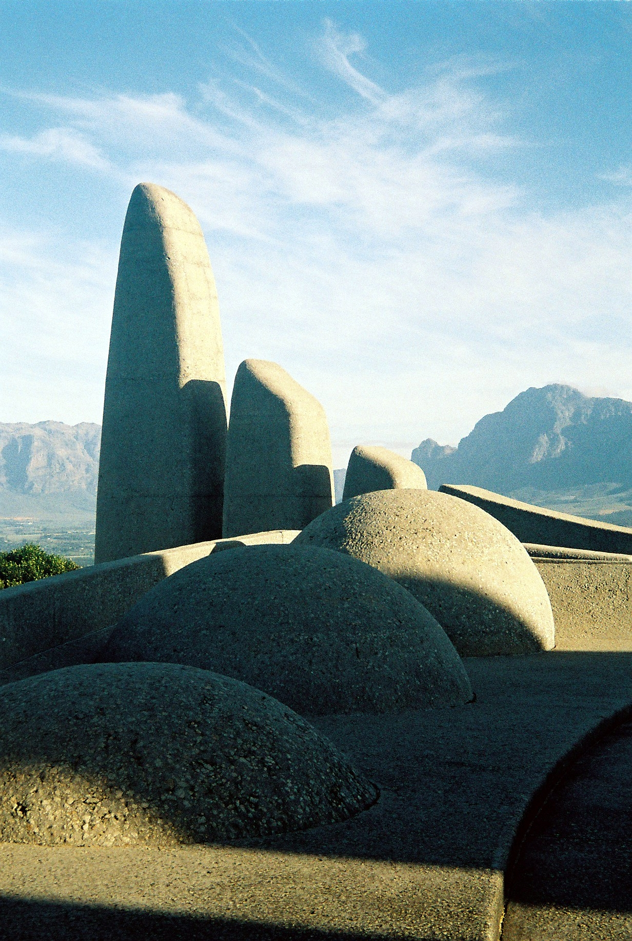 Taalmonument South Africa